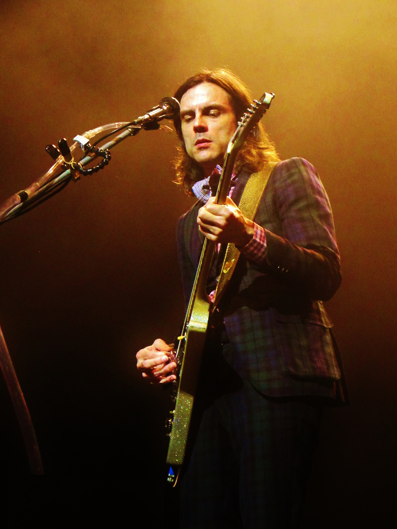 Brian Bell performing in Perth with Weezer in 2013.